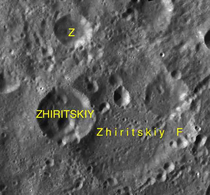 Part of the chart LAC-101 used for the presentation